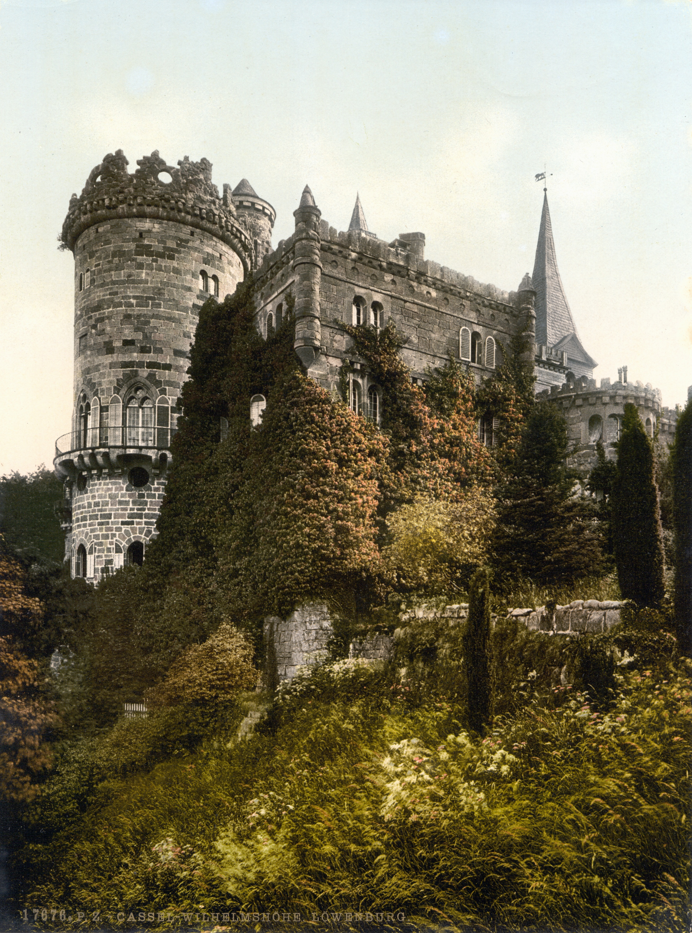 The Loewenburg in Kassel